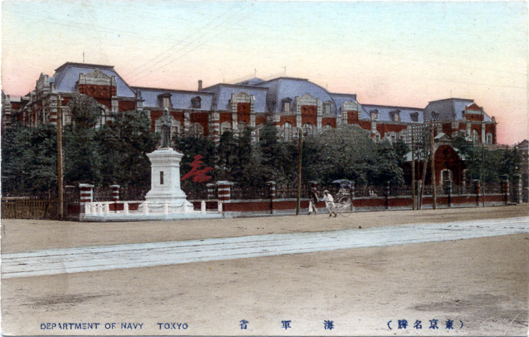 Commemorative postcard of Japanese Navy Ministry, circa 1890s